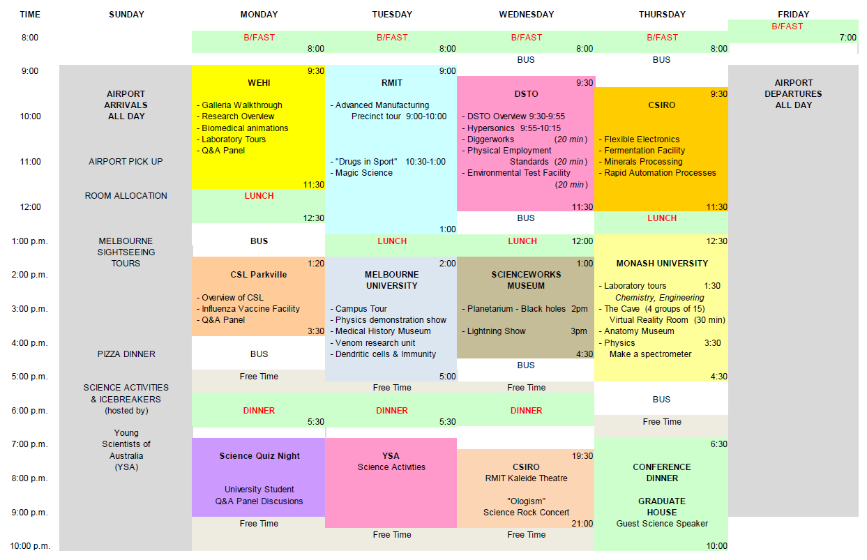 Youth ANZAAS 2014 Melbourne Itinerary